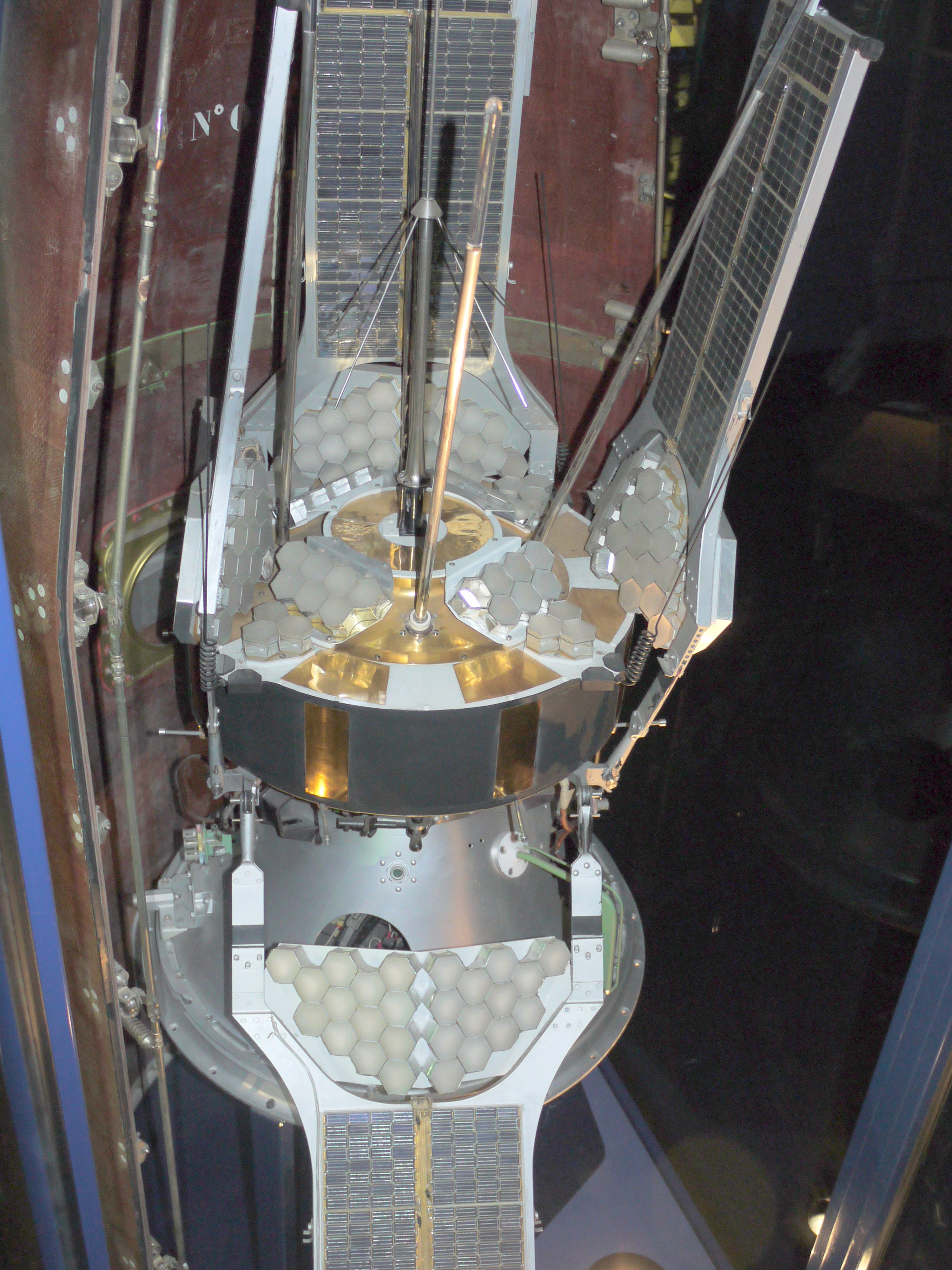 Scientific satellite Diadème (1966-1967), Museum of Air and Space Paris, Le Bourget (France)